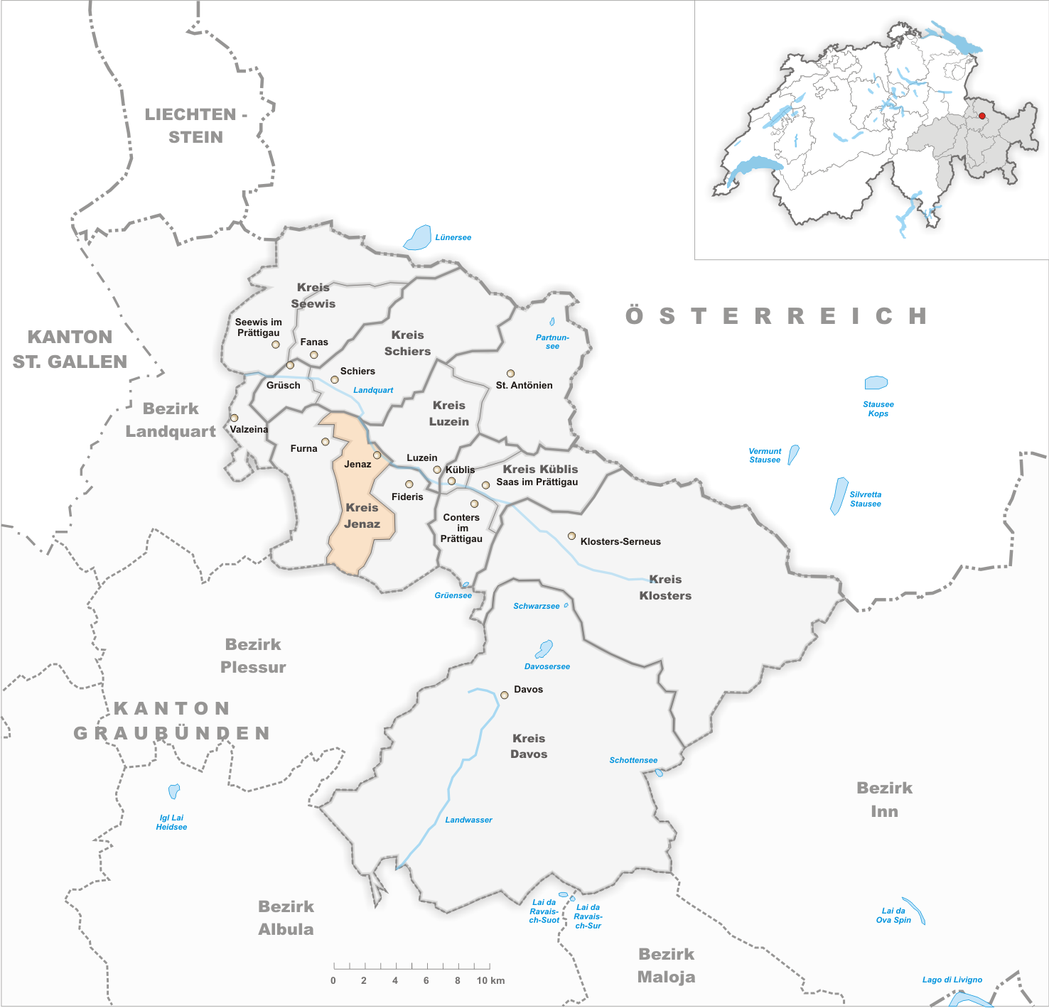 Municipality Jenaz